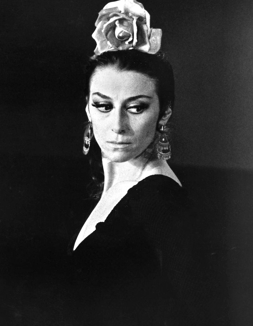 Photo of ballerina Maya Plisetskaya performing in “Carmen Suite Ballet” by Alberto Alonso-Bizet-R. Shchedrin ( with M. Plisetskaya, N. Fadeyechev, S. Radchenko, and Bolshoi Ballet )